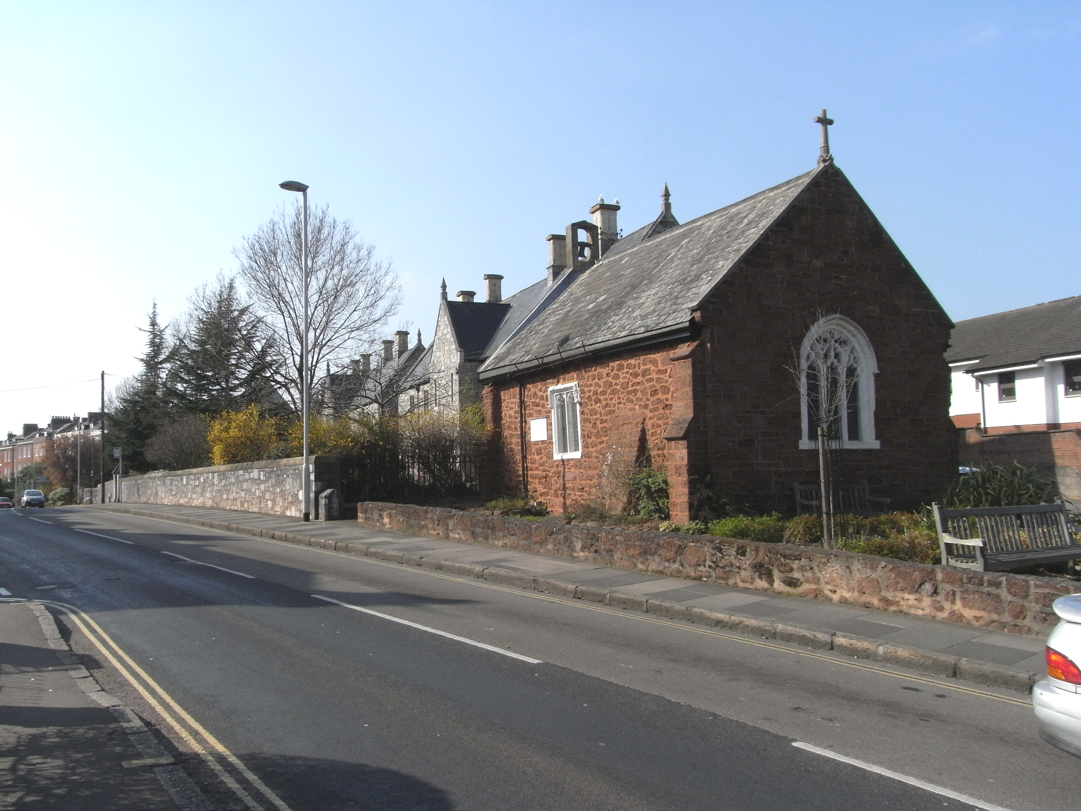 Livery Dole, Heavitree, Exeter, view from south east. In foreground is the 1594 Chapel of Saint Clarus behind which are the replacement almshouses built in 1849